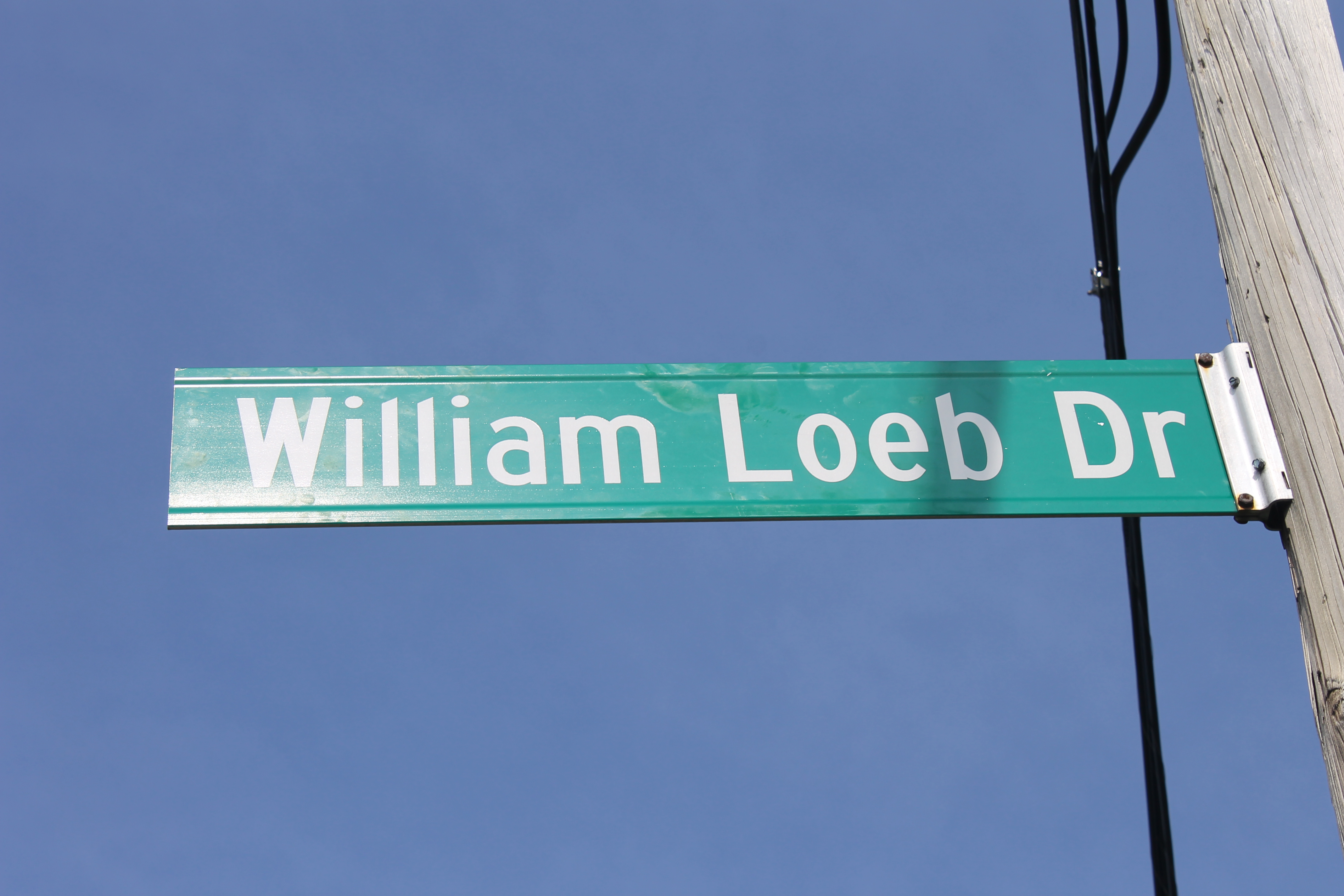 I took photo of William Loeb Drive sign in Manchester, NH, with Canon camera.